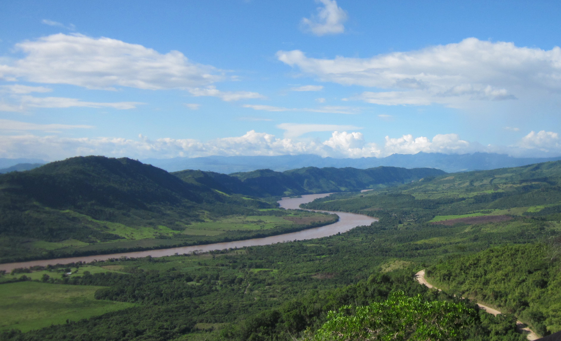 Huallaga River, Tarapoto, Peru